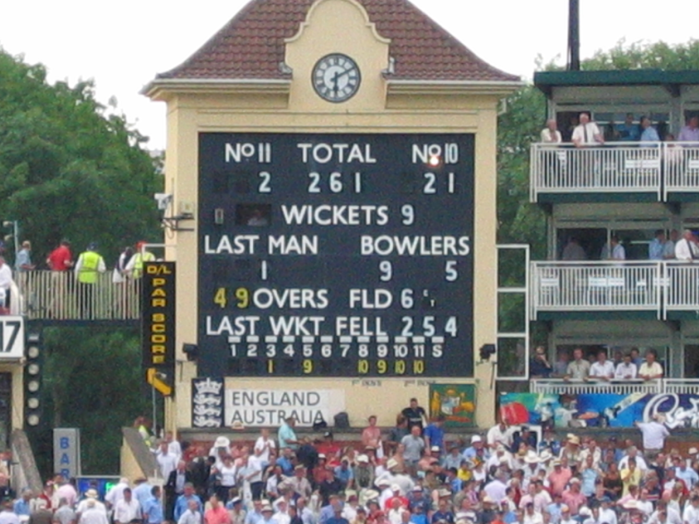 Photo taken by myself (Chris Monahan/ KingGorack) on 28 June 2005 at Edgbaston Cricket Ground at the England v Australia One Day NatWest Series match.